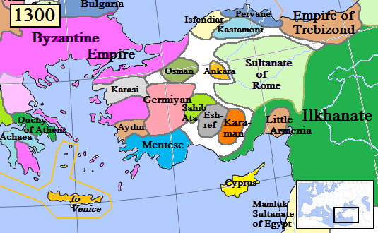 Map of the Anatolia region in AD 1300. (Partially based on Euratlas map of Europe, 1300.)